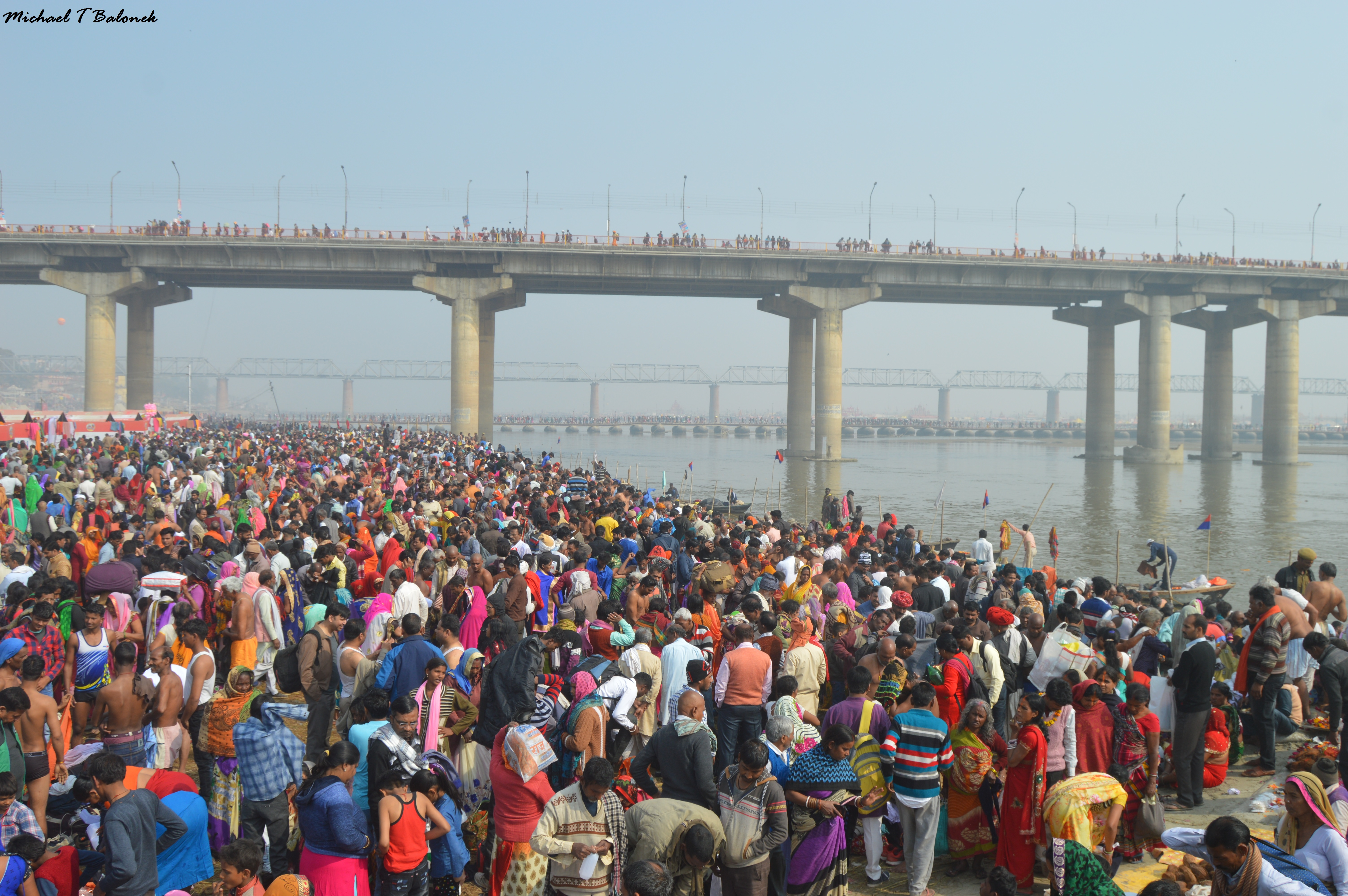 The largest gathering of people in the world, the Kumbh Mela. This photo is from the 2019 event in Prayagraj (Allahabad), UP, India, with the Shastri Bridge in view. This photo has been taken in the country: India